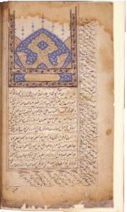 The opening page of one of Ibn al-Nafis's medical works. This is probably a copy made in India during the 17th or 18th century. This is a png version of the mentioned image